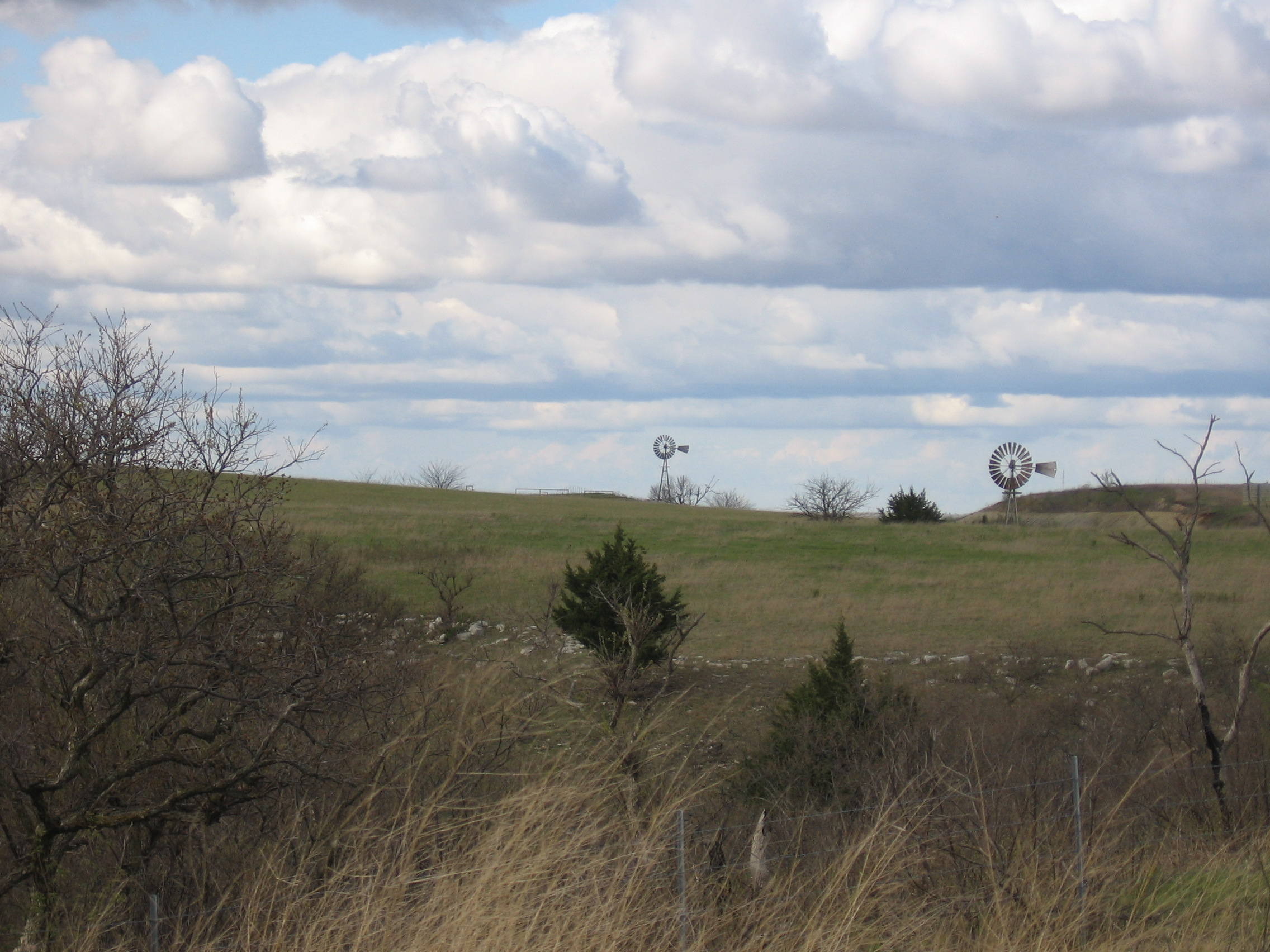 Kansas windmills in Flint Hills.